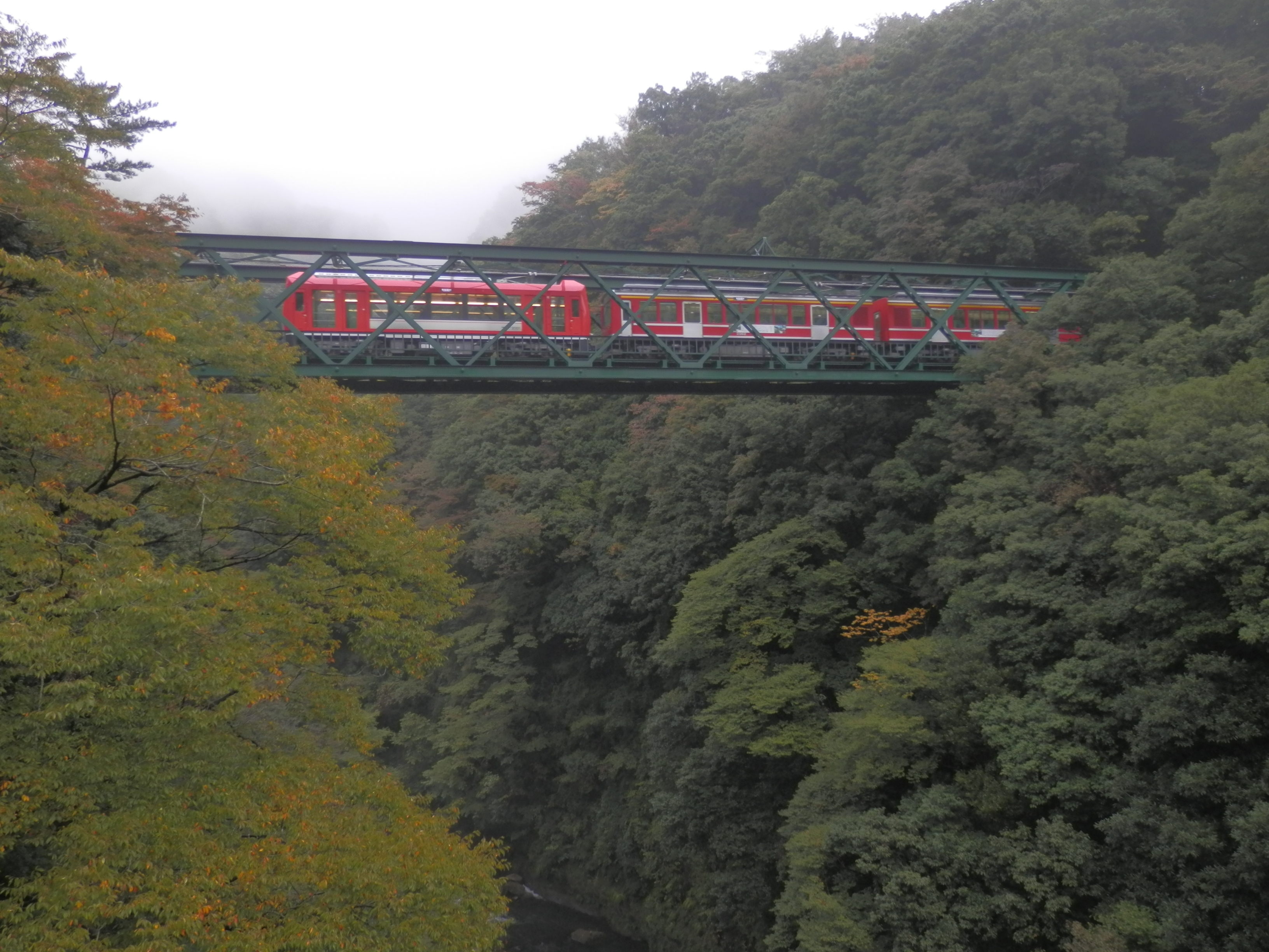 Hakone Tozan Railway 3000 series "Allegra" and 2000 series "St. Moritz" EMUs